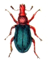 Salpingus ruficollis, from Calwer's Käferbuch, Table 48, Picture 10. Taxonomy was updated to 2008, using mostly the sites Fauna Europaea and BioLib. Please contact Sarefo if the determination is wrong!